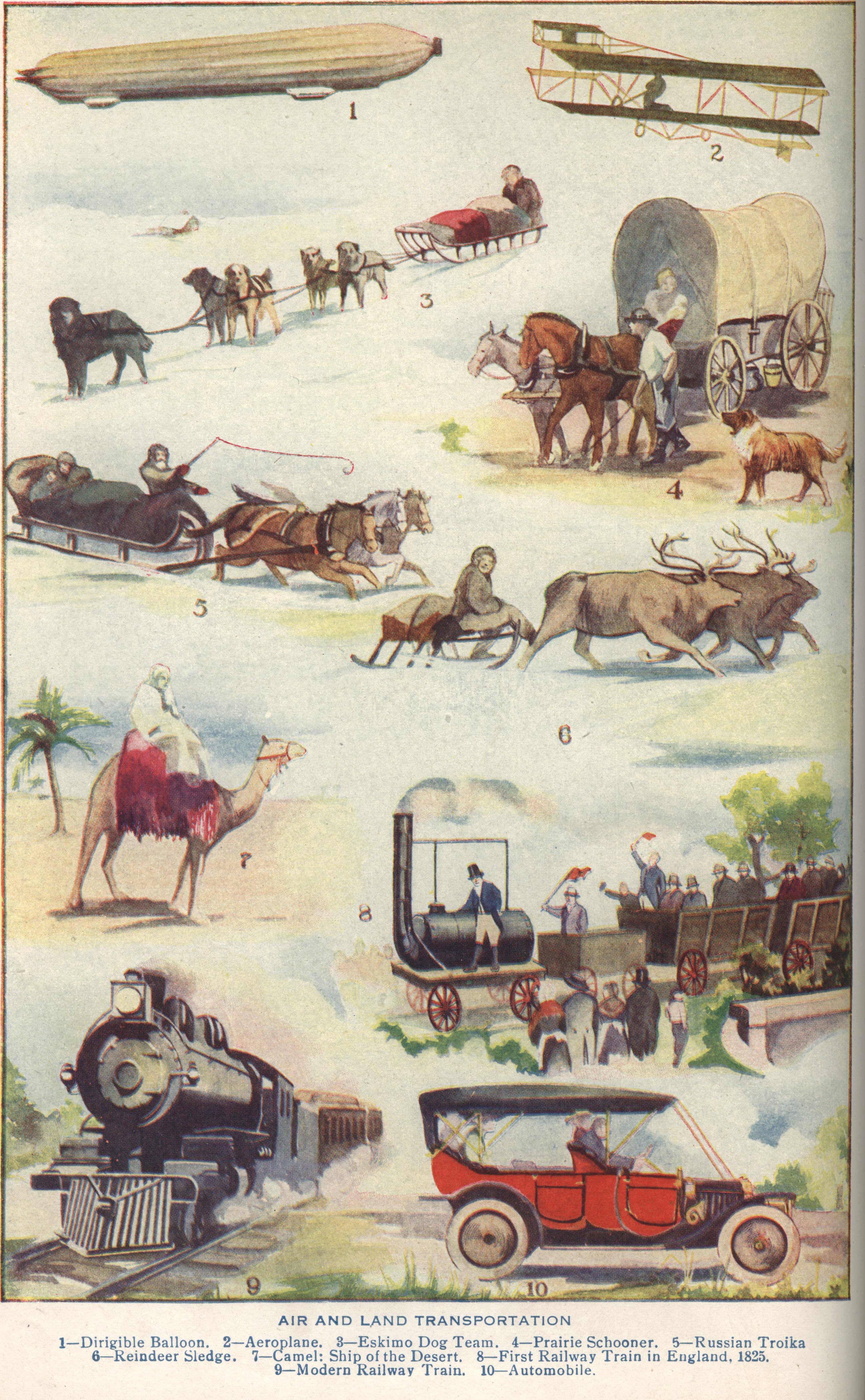 This is an image or page from The How and Why Library, a book first published in the United States in 1909. Location: Travel Drawings, between pages 68 and 69